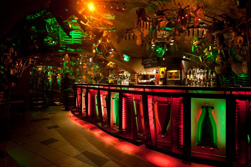 Cross basement bar